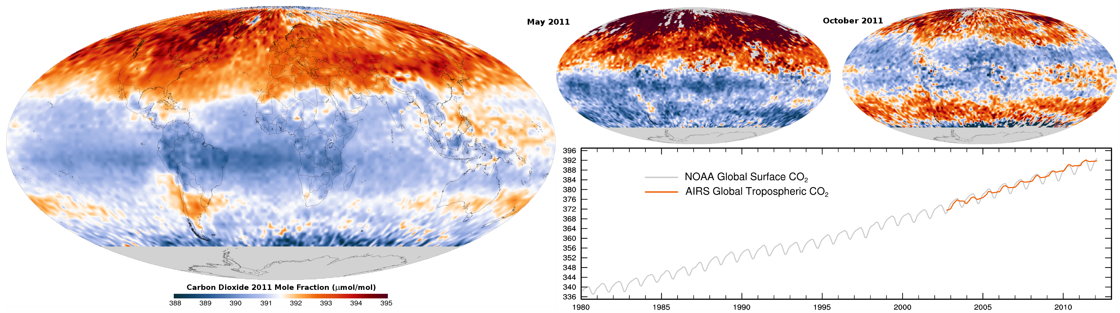 AIRS 2011 annual mean carbon dioxide concentration in the free troposhere. Data Timeseries: NOAA global surface carbon dioxide concentration(1980-jan2012): and AIRS global tropospheric co2 sep2002-jan2012.